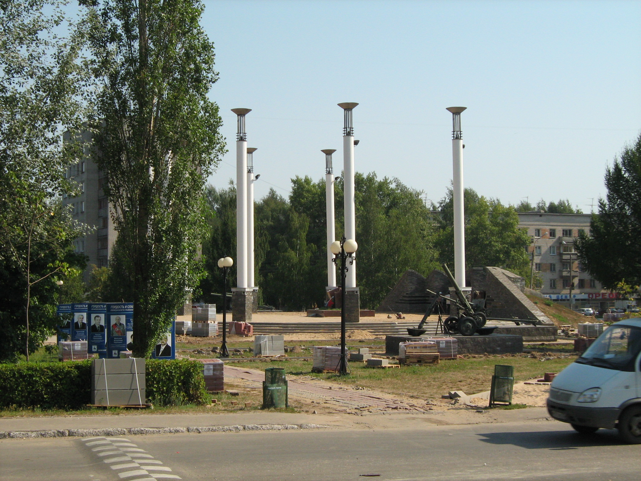 A square with a variety of monuments off Sakharov Ave in Nizhny Novgorod - sort of Prioksky District's open-air Hall of Fame.